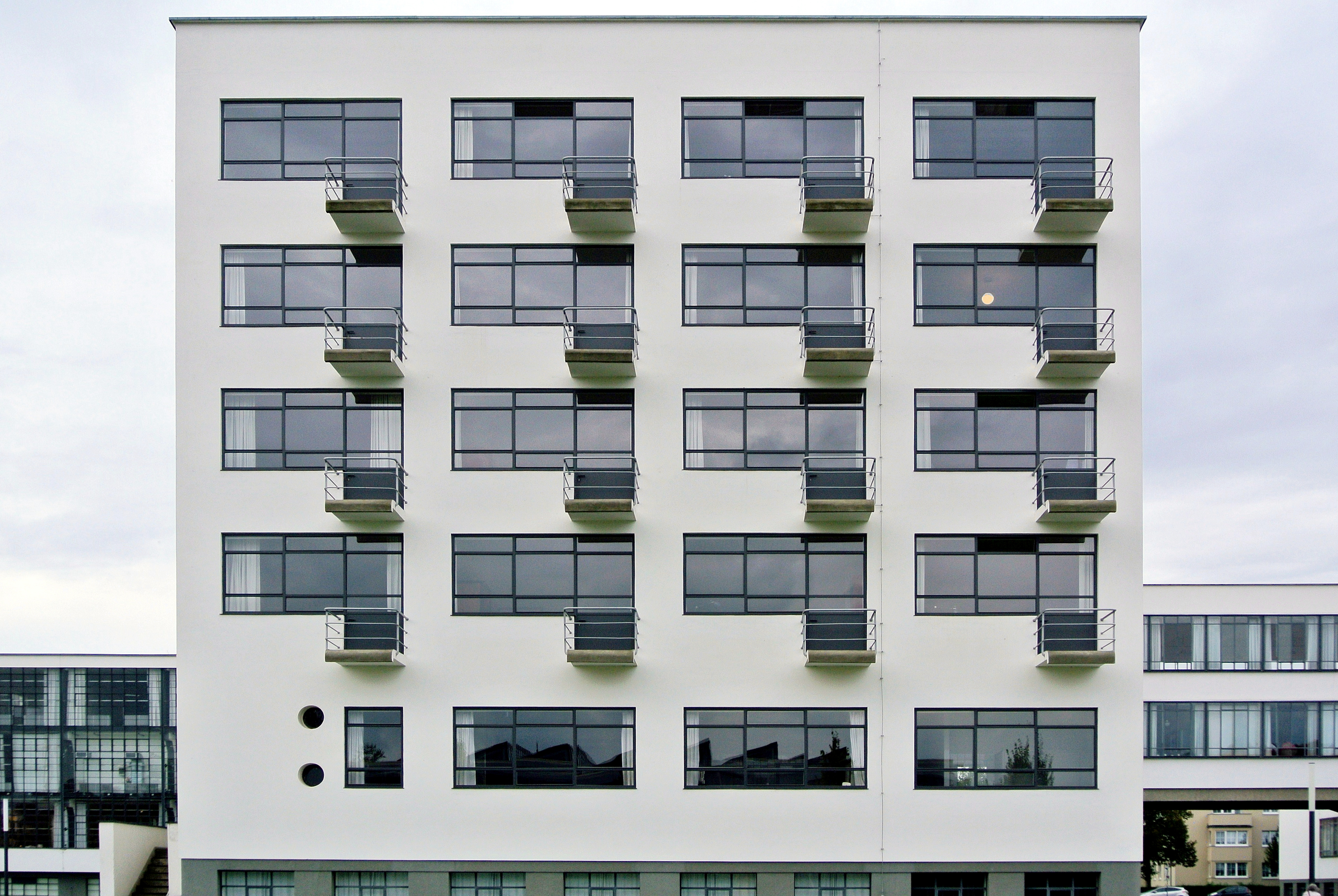 Dessau-Bauhaus